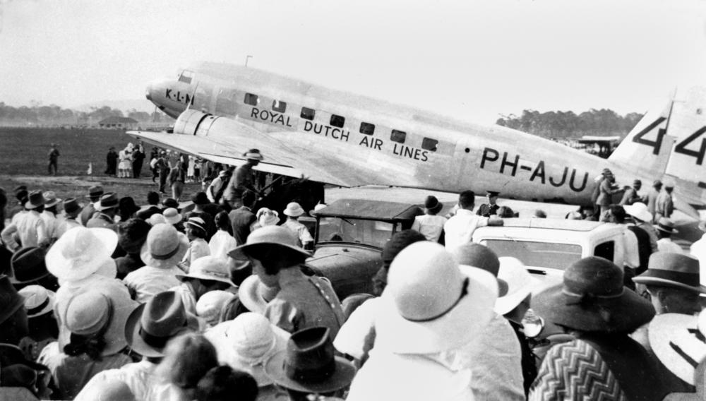 Royal Dutch Air Lines plane at Archerfield for the Melbourne Centenary Air Race